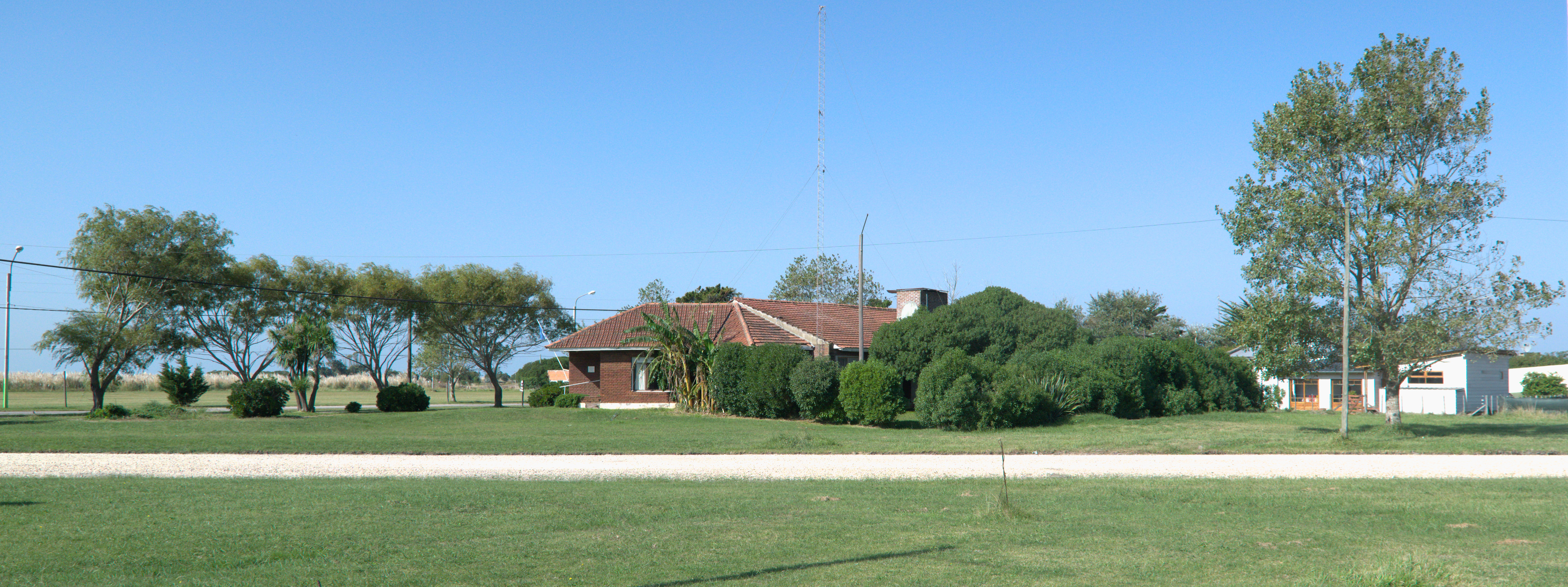 House in Mar Chiquita, Buenos Aires province, Argentina